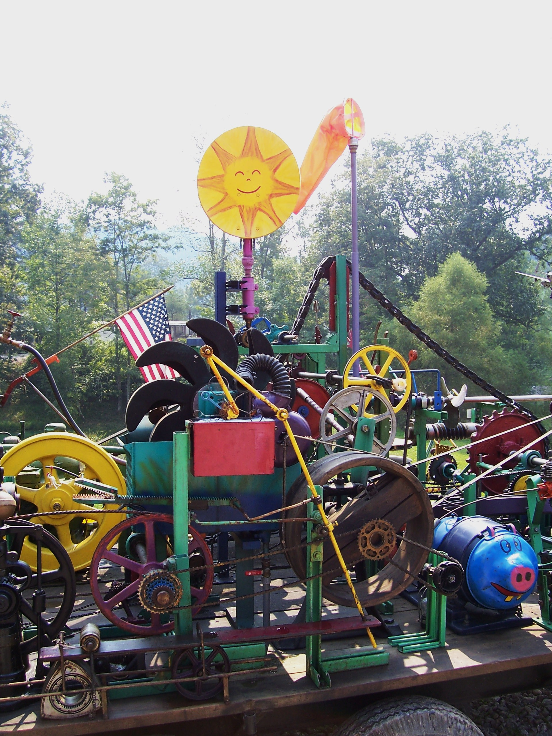 Right-side view of Gunderson's Do-All Machine (by M.A. Gunderson) showing the broad array of colorful machines linked in a continuous chain-reaction.